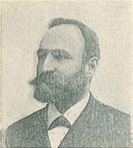 Swedish politician Karl Edvard Holmgren. From page 8 of an album featuring portraits of all the members of the second chamber of the Swedish parliament (Sveriges riksdag) elected in 1897.